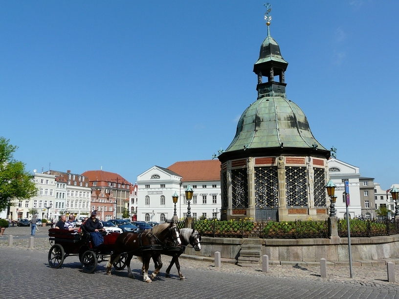 Wasserkunst Wismar(Art of Water Wismar)